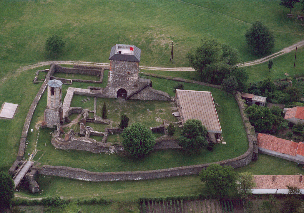 Castle - Kisnána - Hungary - Europe